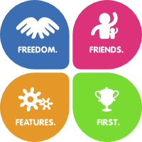 4 Fedora Foundations